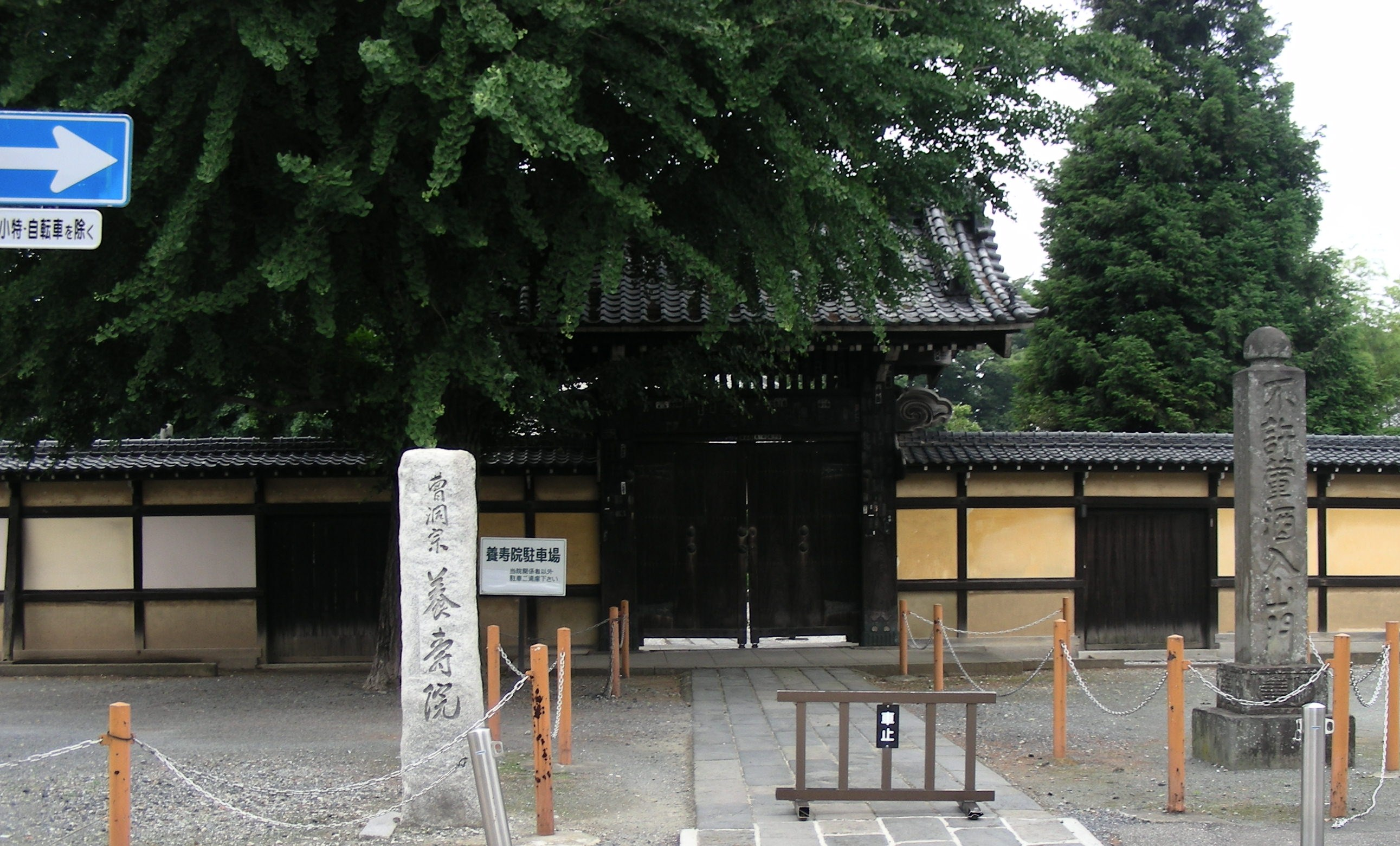 Gate of the Yojuin temple in Kawagoe City, Saitama Prefecture, Japan